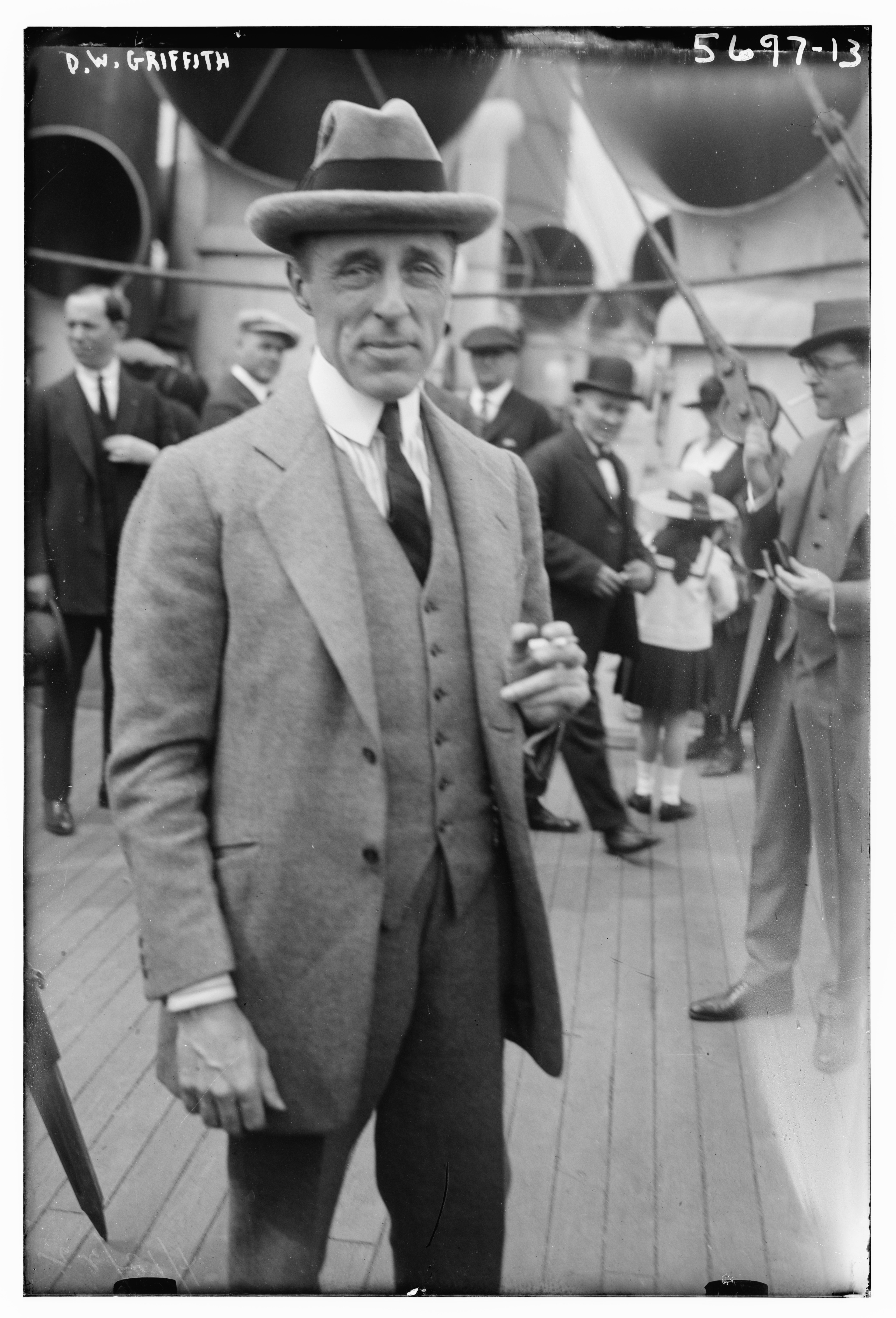 Title: D.W. Griffith Abstract/medium: 1 negative : glass ; 5 x 7 in. or smaller.